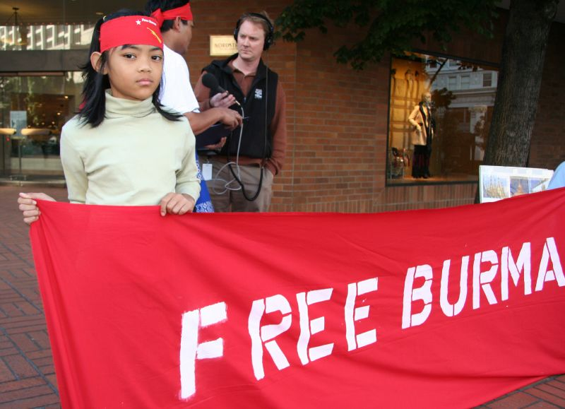 For the last week, thousands of Burmese monks have marched against the repressive Burmese military regime in cities across that nation. This is the largest public demonstration against the junta in nearly 20 years. As the Alliance of All Burmese Buddhist Monks march, chant, and overturn their almsbowls (patam nikkujjana kamma), refusing to accept donations from members of the military regime. FOR INFORMATION IN PORTLAND PHONE: (971) 285-7399 PHOTO COPYRIGHT JAN VAN RAAY